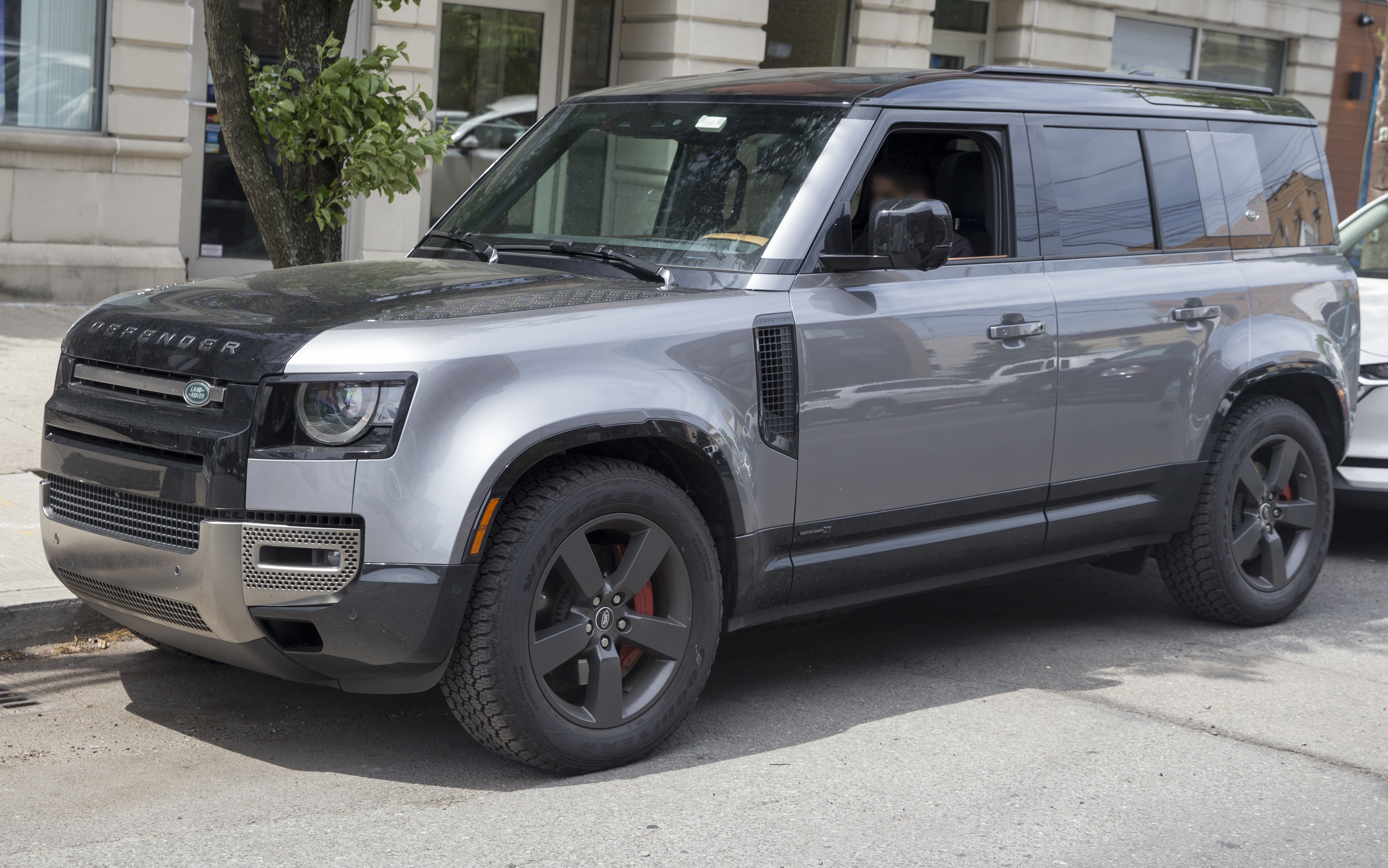 A prototype US-spec 2020 Land Rover Defender 110 X in Astoria. This is the top-of-the-line version, featuring the 395hp 3.0-liter V6 and lots of stuff. Not sure what's left to test, they are supposed to go on sale this summer.